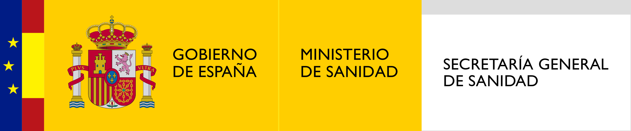 Logo of the General Secretariat for Health of Spain.